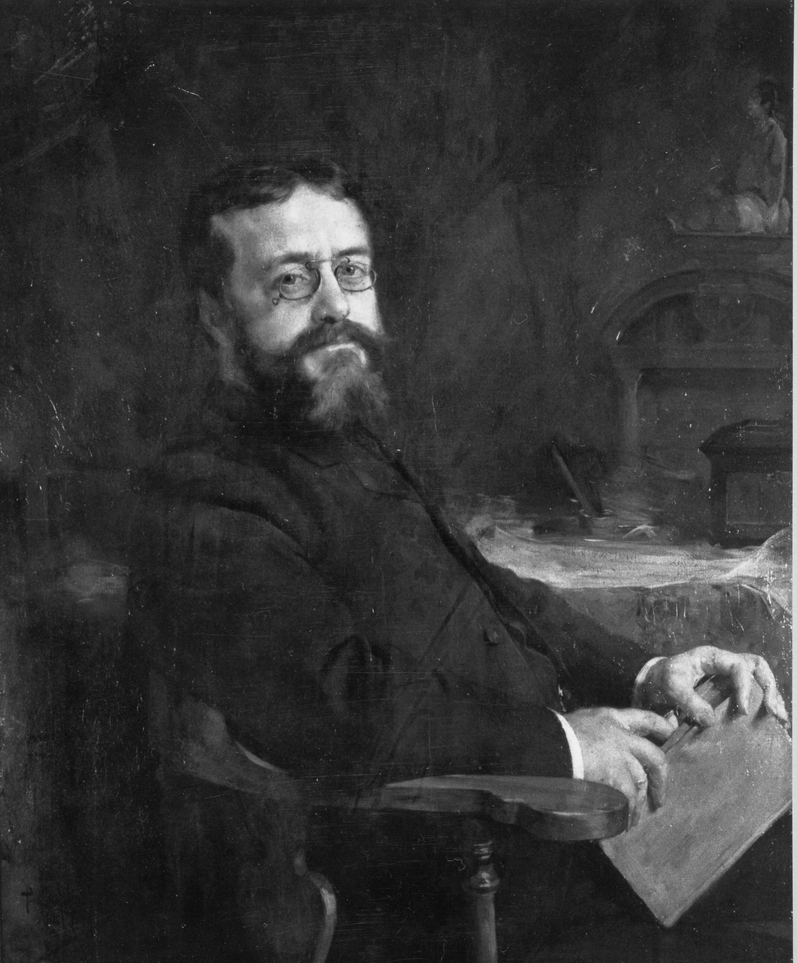 Painting of Victor de Stuers by Pieter de Josselin de Jong